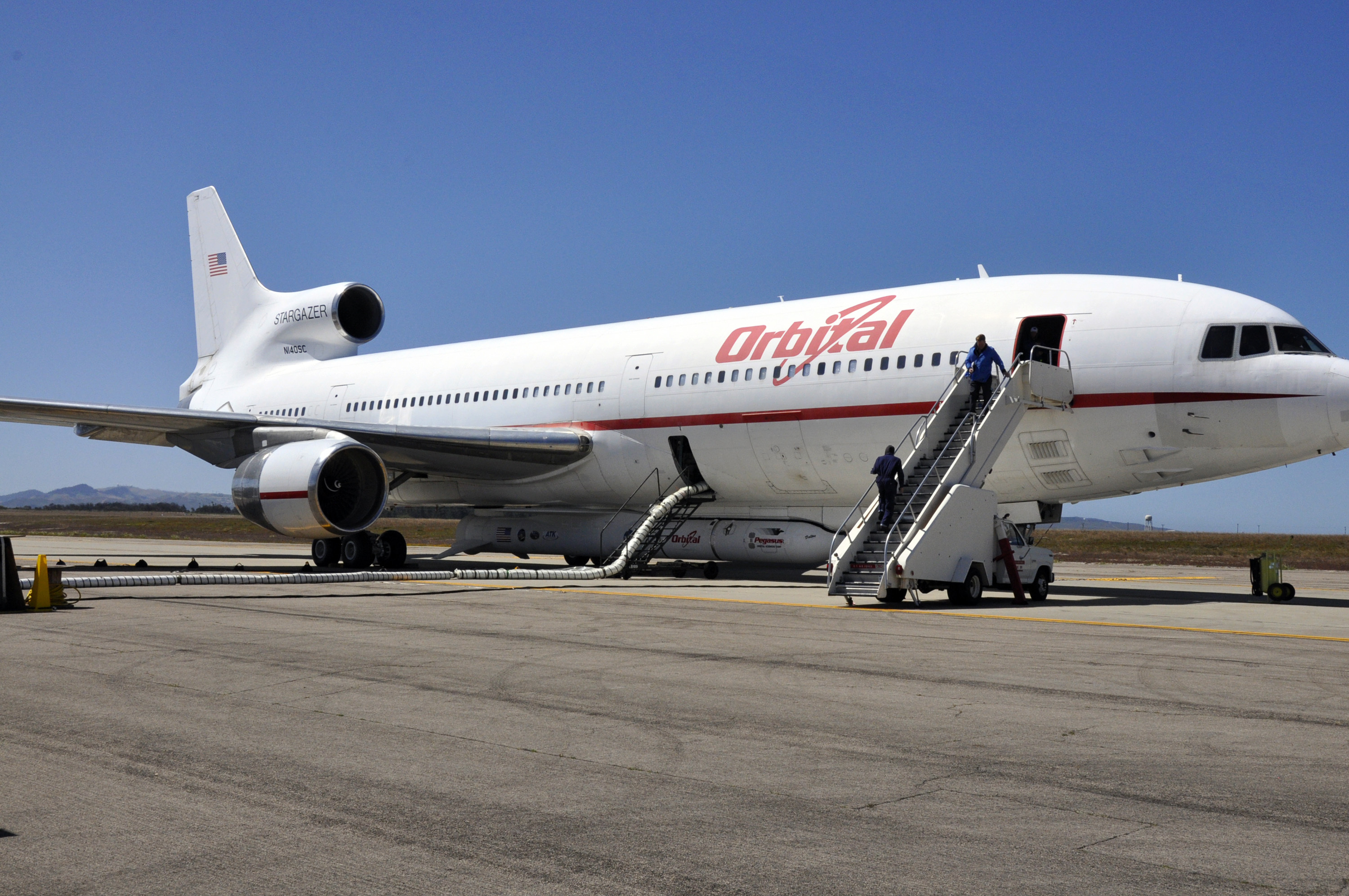 VANDENBERG AIR FORCE BASE, Calif. – The flight crew boards Orbital Sciences’ L-1011 carrier aircraft at Vandenberg Air Force Base in California. The aircraft is transporting Orbital’s Pegasus rocket and NASA’s Nuclear Spectroscopic Telescope Array, or NuSTAR, to the U.S. Army's Ronald Reagan Ballistic Missile Defense Test Site on Kwajalein Atoll, part of the Marshall Islands in the Pacific Ocean. The Pegasus, mated to its NuSTAR payload, will be launched from the carrier aircraft 117 nautical miles south of Kwajalein at latitude 6.75 degrees north of the equator. The high-energy X-ray telescope will conduct a census of black holes, map radioactive material in young supernovae remnants, and study the origins of cosmic rays and the extreme physics around collapsed stars. Launch is scheduled for June 13. For more information, visit